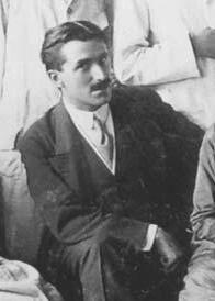 Front row, from left: Mrs. Adele Grombach, Ugo Cerletti, unknown, Francesco Bonfiglio, Gaetano Perusini. Top row from left: Fritz Lotmar, unknown, Stefan Rosental, Allers (?), unknown, Alois Alzheimer, Nicolás Achúcarro, Friedrich Heinrich Lewy.